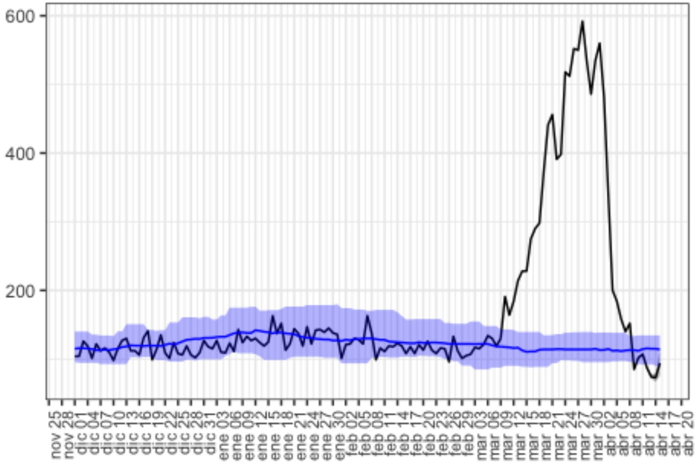 Deaths are on left axis. Recent dates are probably underreported because confirmed COVID-19 deaths exceed total deaths for some recent dates.